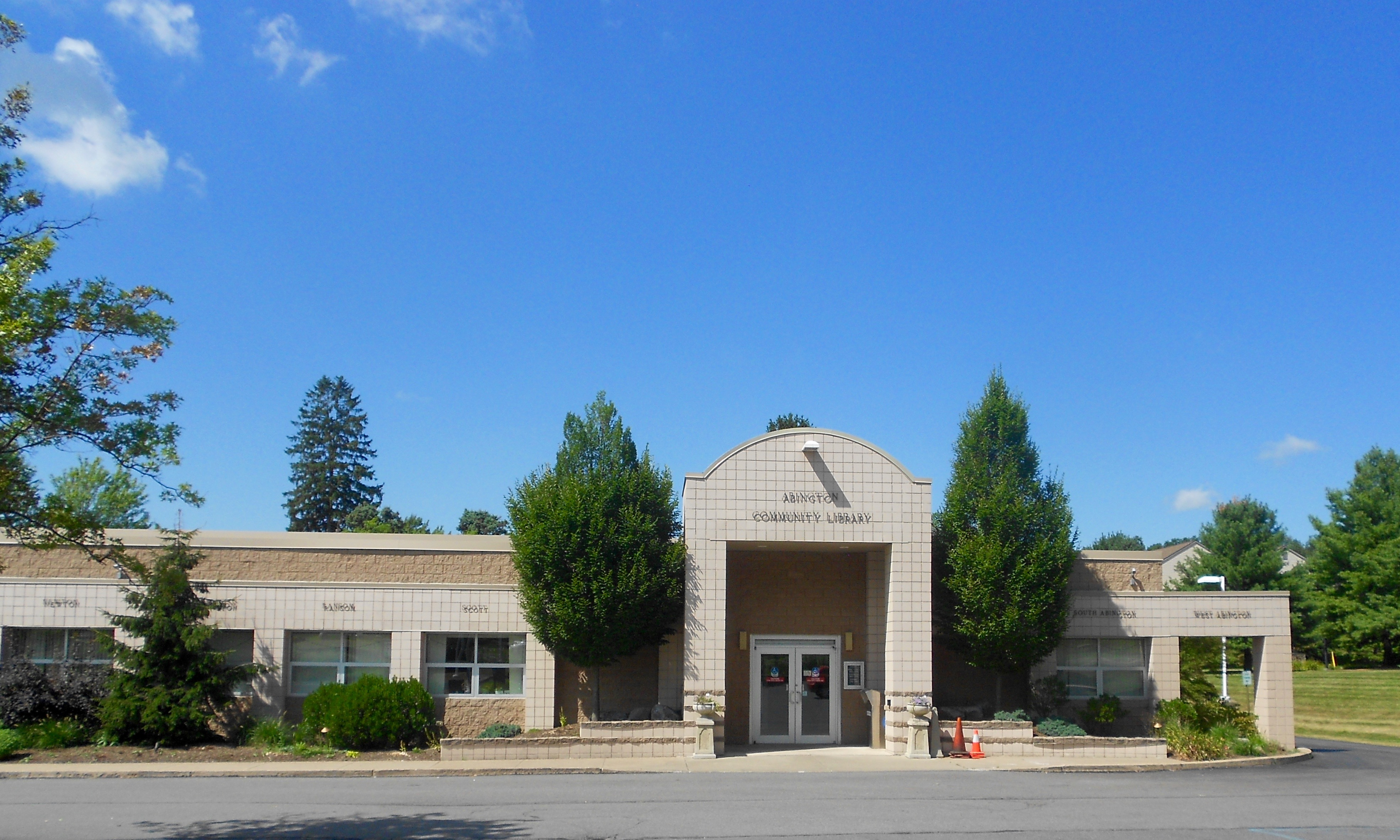 Abingtons Community Library in Clarks Summit, Lackawanna County, Pennsylvania. Serves surrounding communities as well.